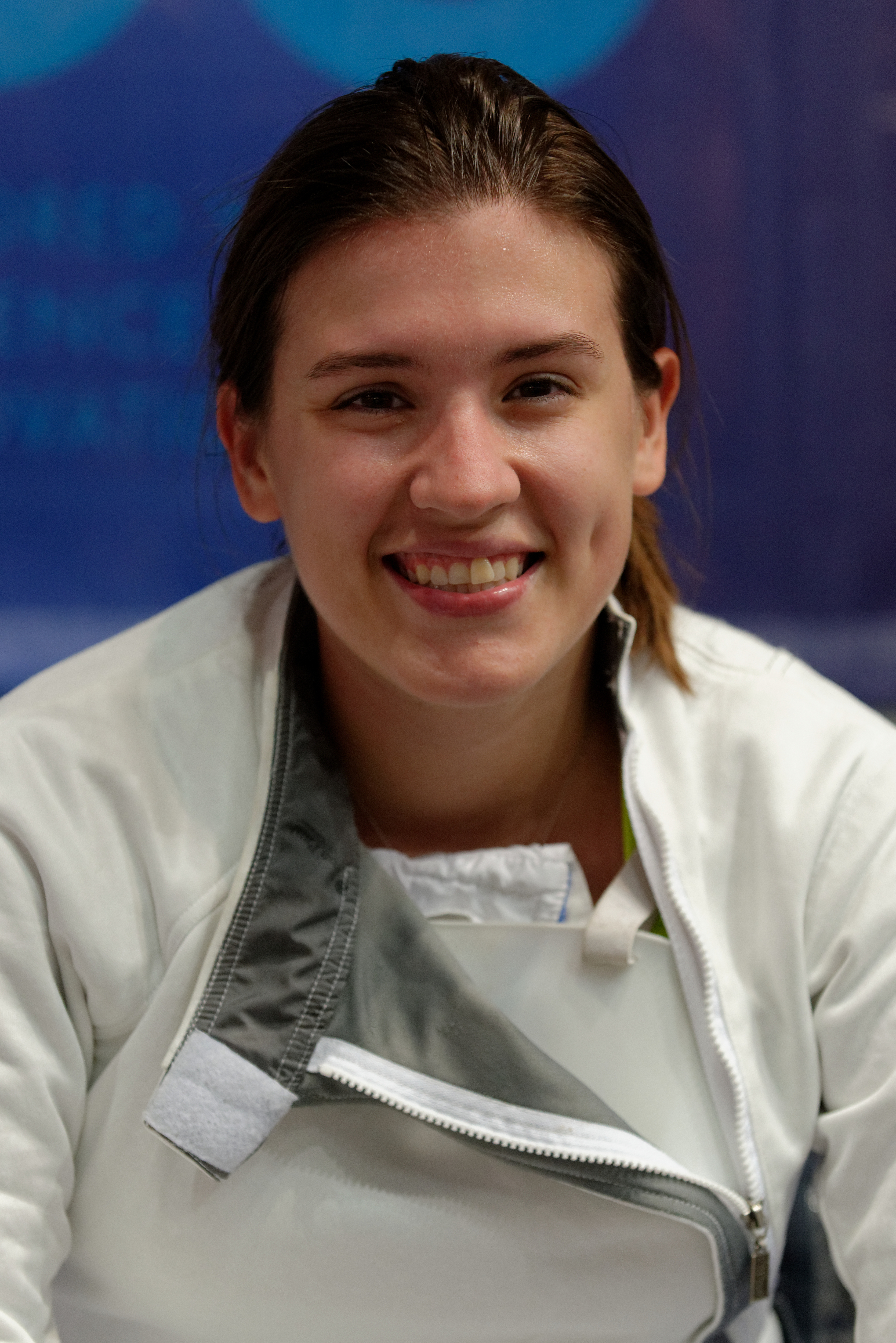 Courtney Hurley during the women's épée event at the 2013 World Fencing Championships 2013 at Syma Hall in Budapest, 8 August 2013.